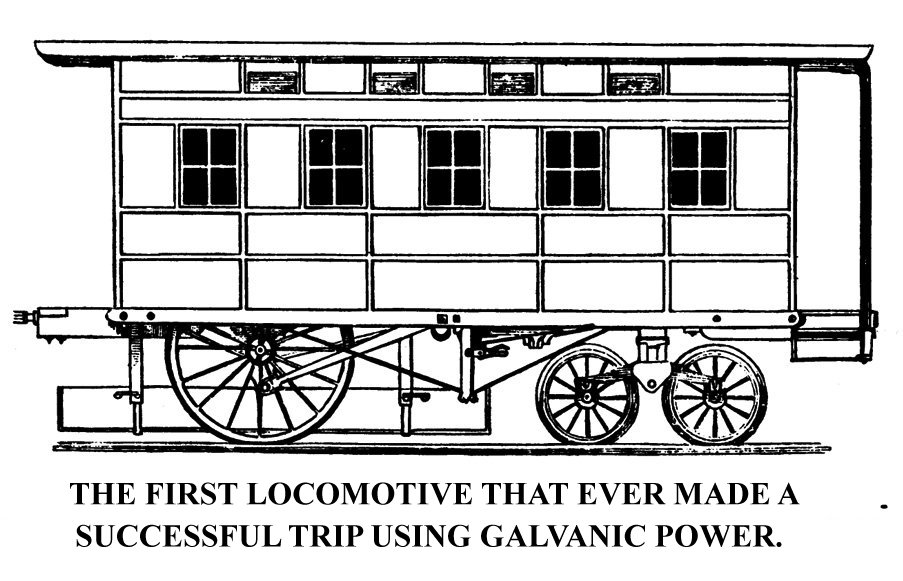 Page’s electromagnetic locomotive, American Polytechnic Journal (1854), 257.